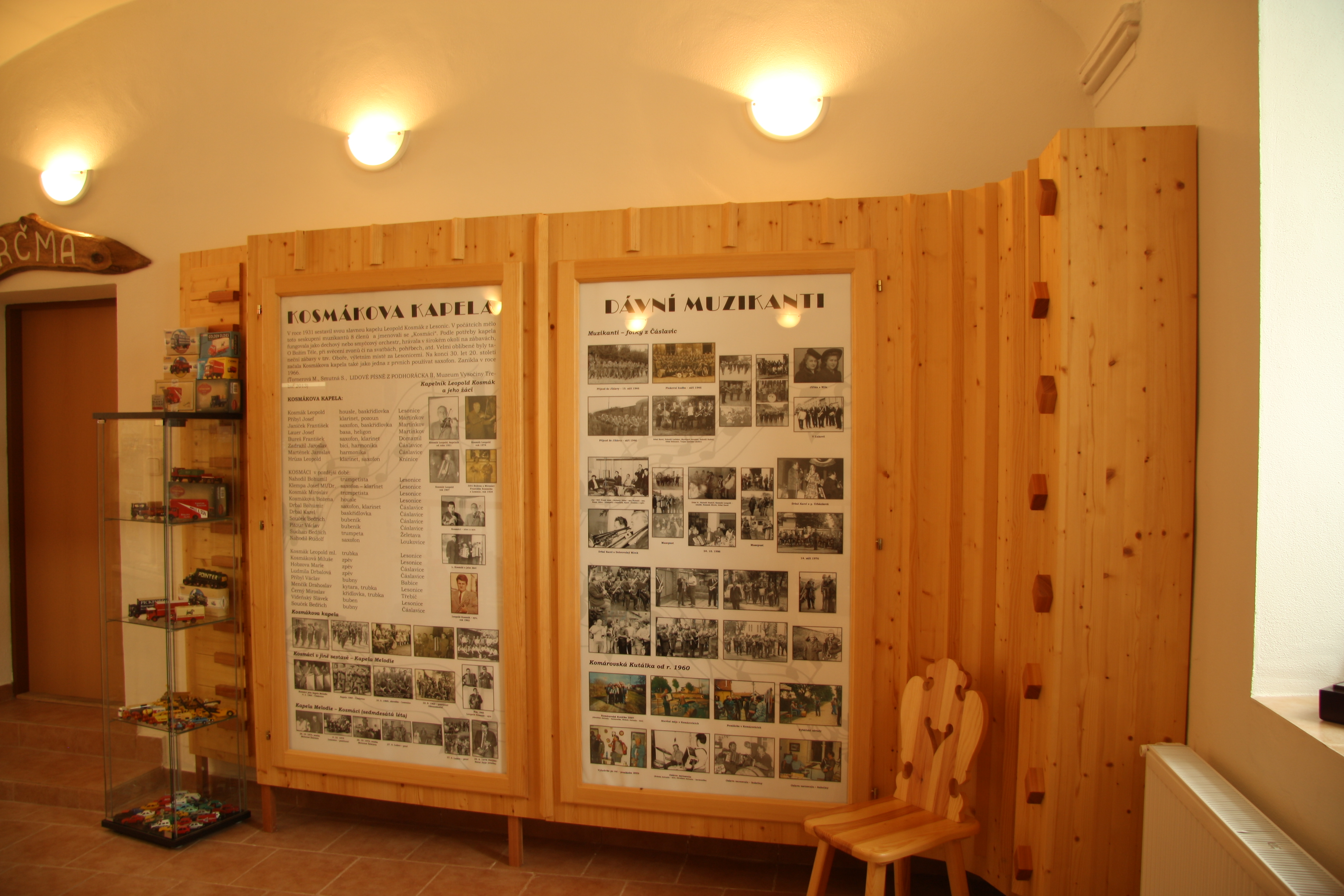 Interior of Museum of people bands (Muzeum lidových kapel) in Lesonice, Třebíč District.